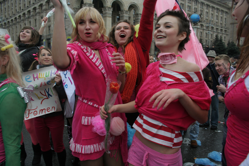 The activists of the female movement Femen